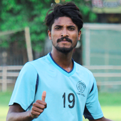 Abahani Limited Dhaka's defender Tutul Hossain Badsha poses for a photo during their practice at Abahani field on July 28, 2019. Photo by RHS Photography/RIYADH HASNAT SARKER